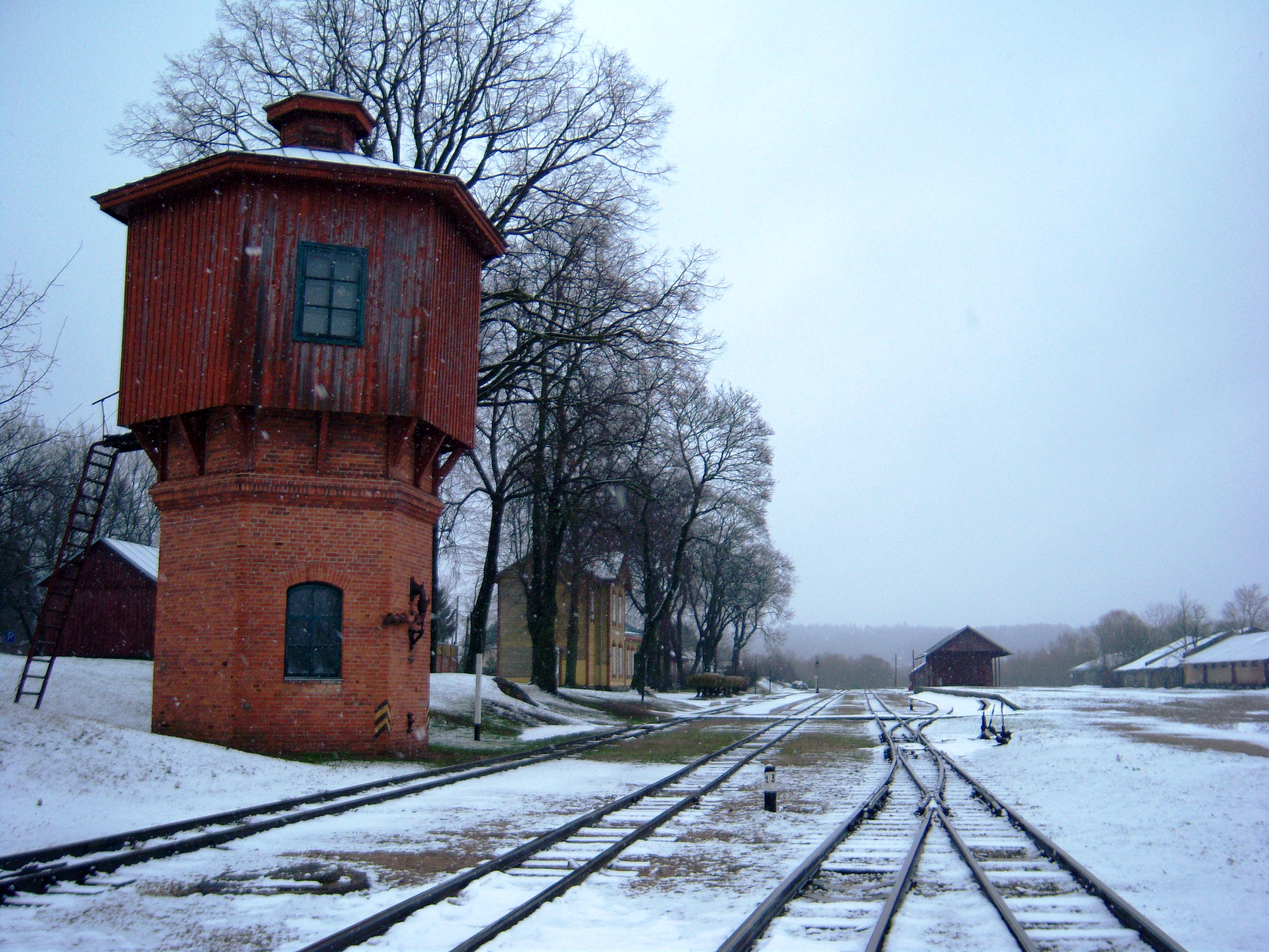 Narrow gauge railway station, Anykščiai, Lithuania